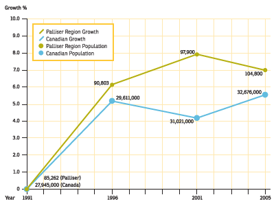 This chart was created for this article to demonstrate the population growth of the Palliser Region of Alberta, Canada, and to compare the population growth to the country as a whole.